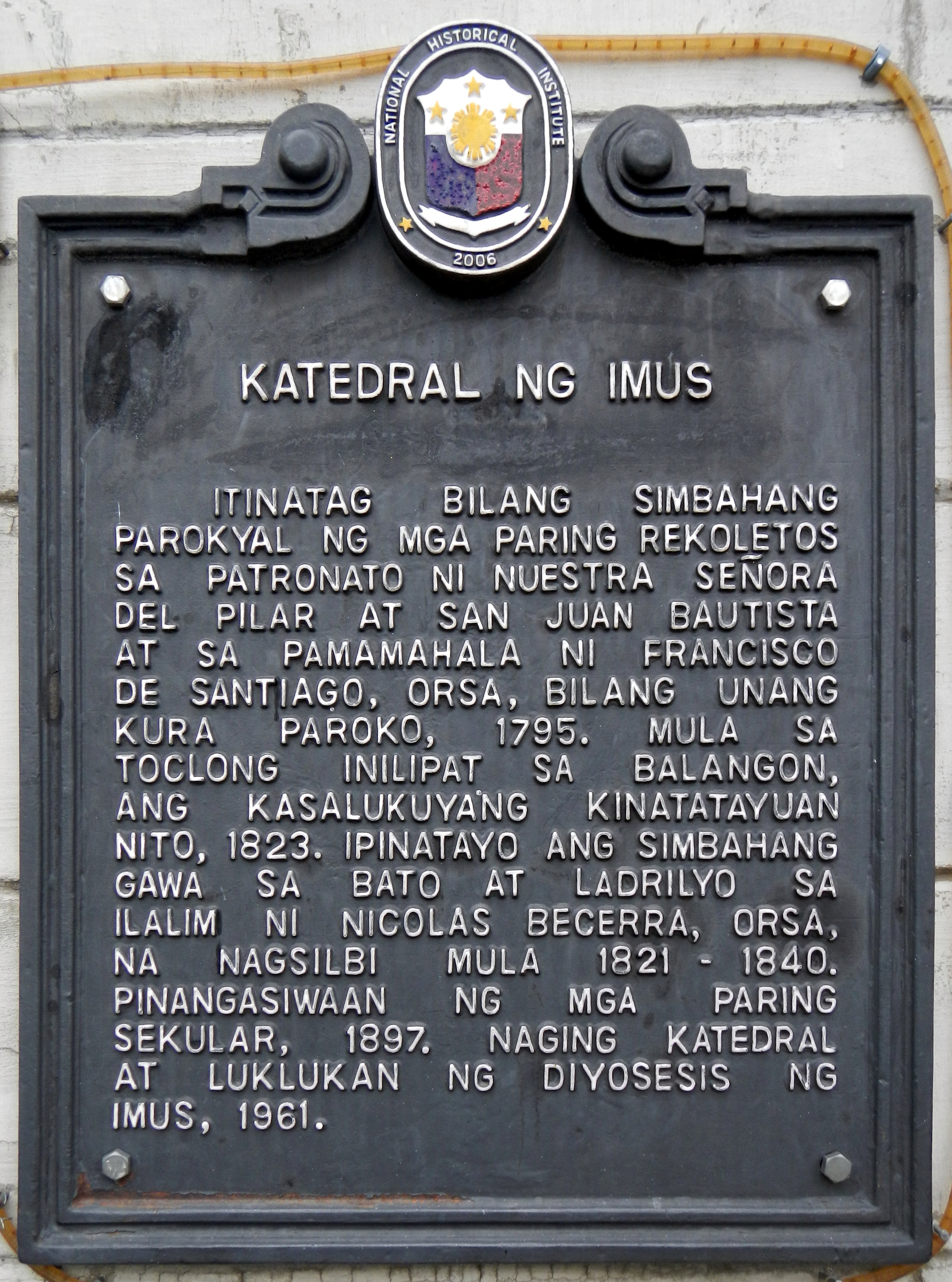 Historical marker installed by the National Historical Institute (now the National Historical Commission of the Philippines) for the Imus Cathedral.